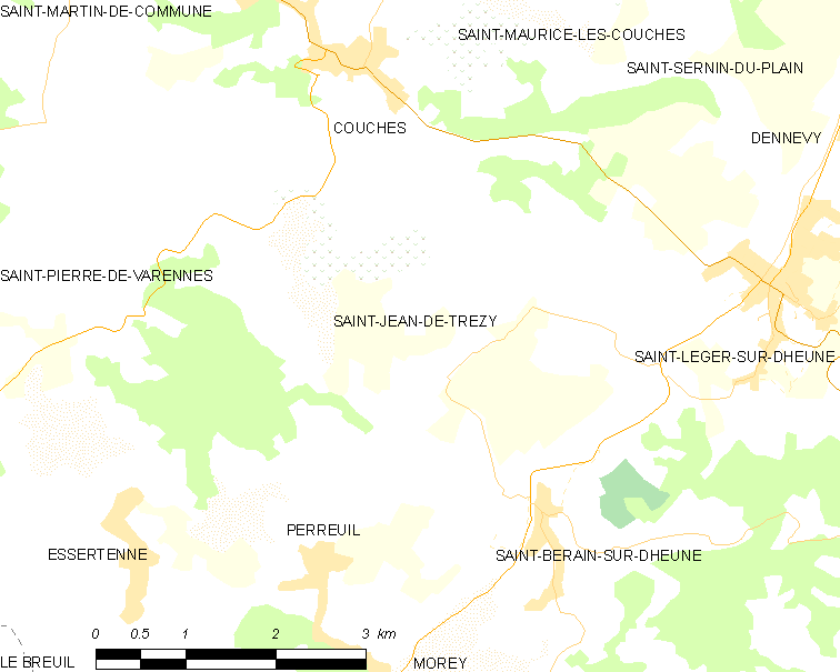 Map of French municipality